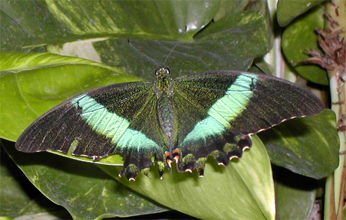 Ragged Butterfly: In the Butterfly Museum, Westminster, Colorado.